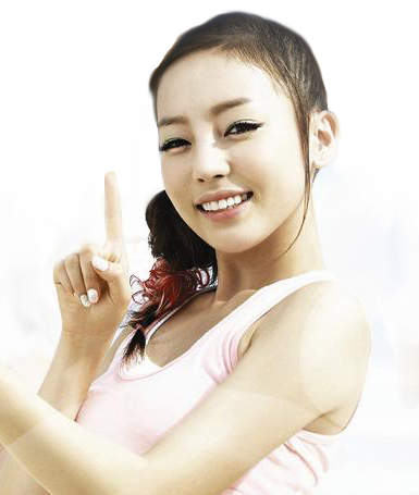 Kara in LG Optimus Bright advertisement